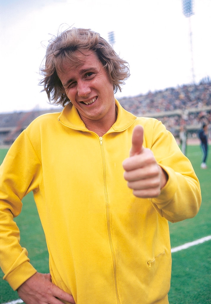 The Swedish pole-vault champion Kjell Isaksson, former holder of the world record, blinks to the photographer from the lawn of the Olympiastadion, where he will try and fail to win a medal. Munich, summer 1972.